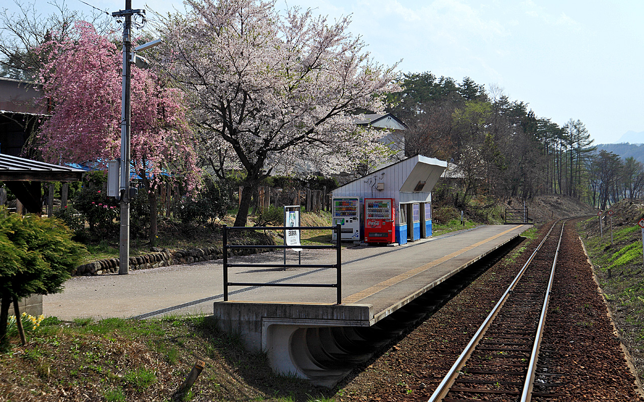 Aizu Railway Tajima-Kōkō-Mae Station